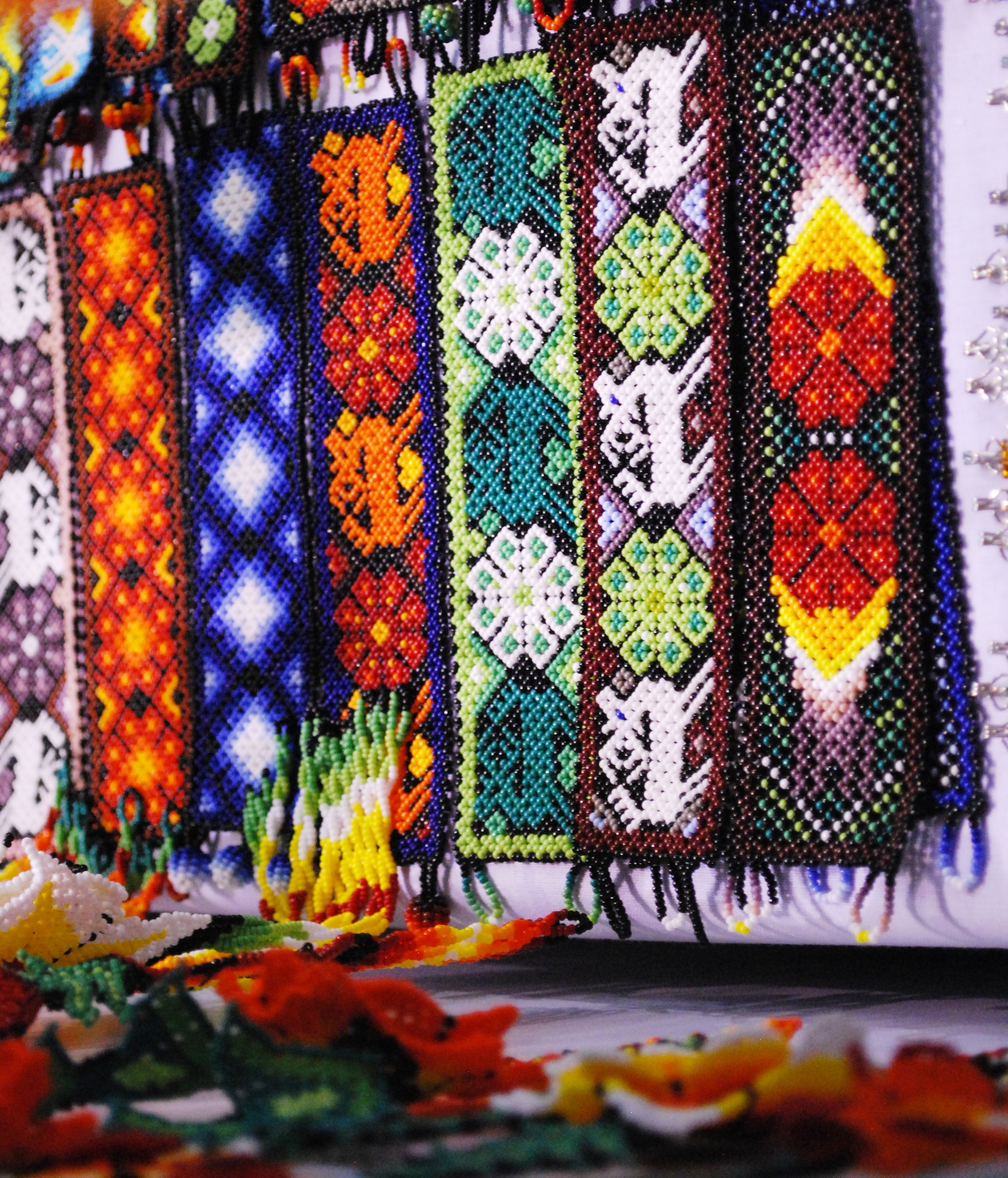 Example of Huichol beadwork at the 2010 FONART exhibition in Mexico City